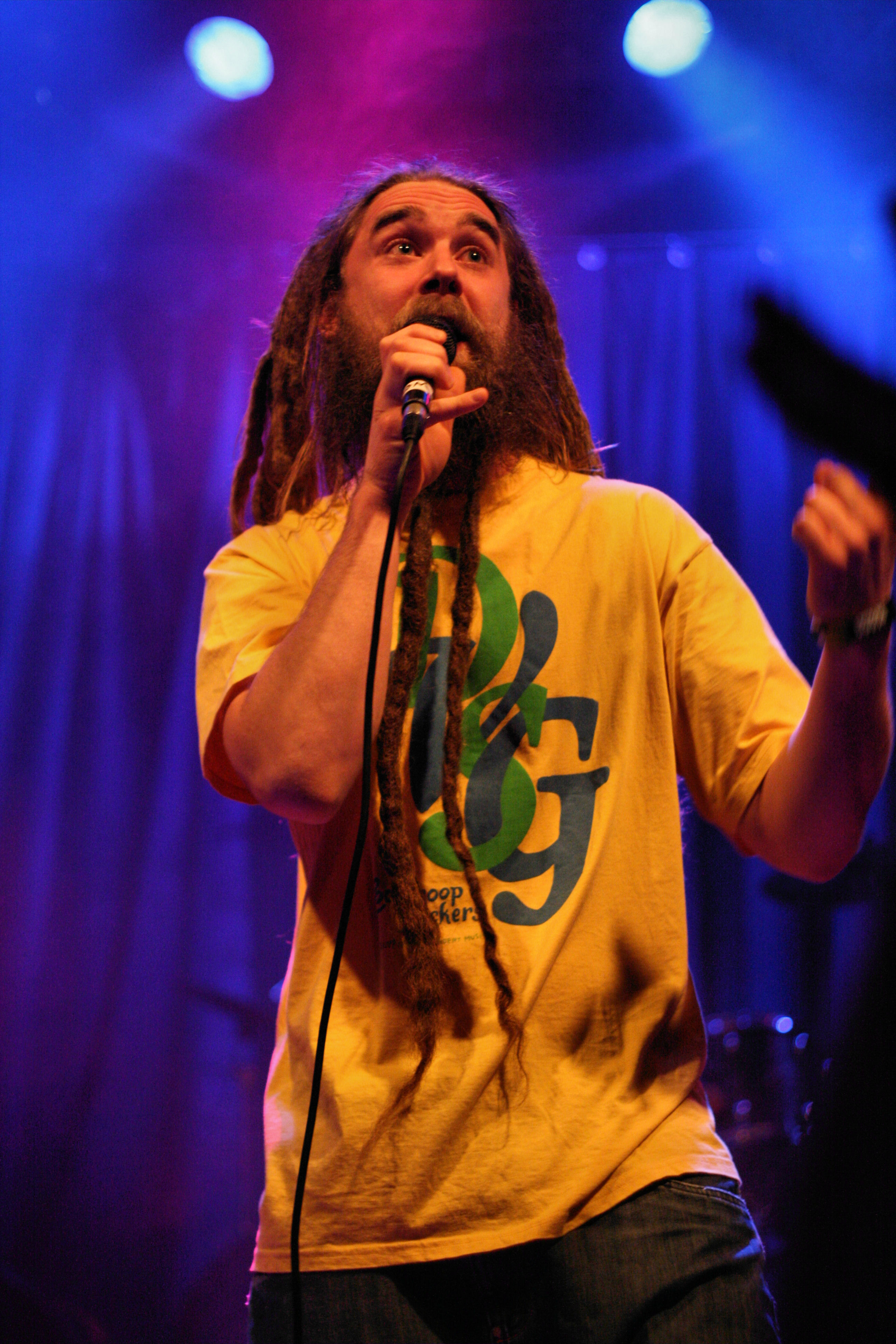 Promoe performing at Tavastia, Helsinki, Finland with Conscious Youths.